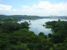 metapan lake